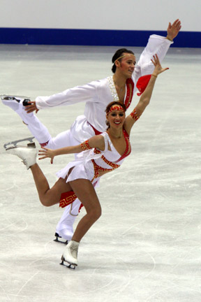 Kristina Gorshkova and Vitali Butikov perform synchronized twizzles during their original dance at the 2008 World Junior Figure Skating Championships (Folk, Country)